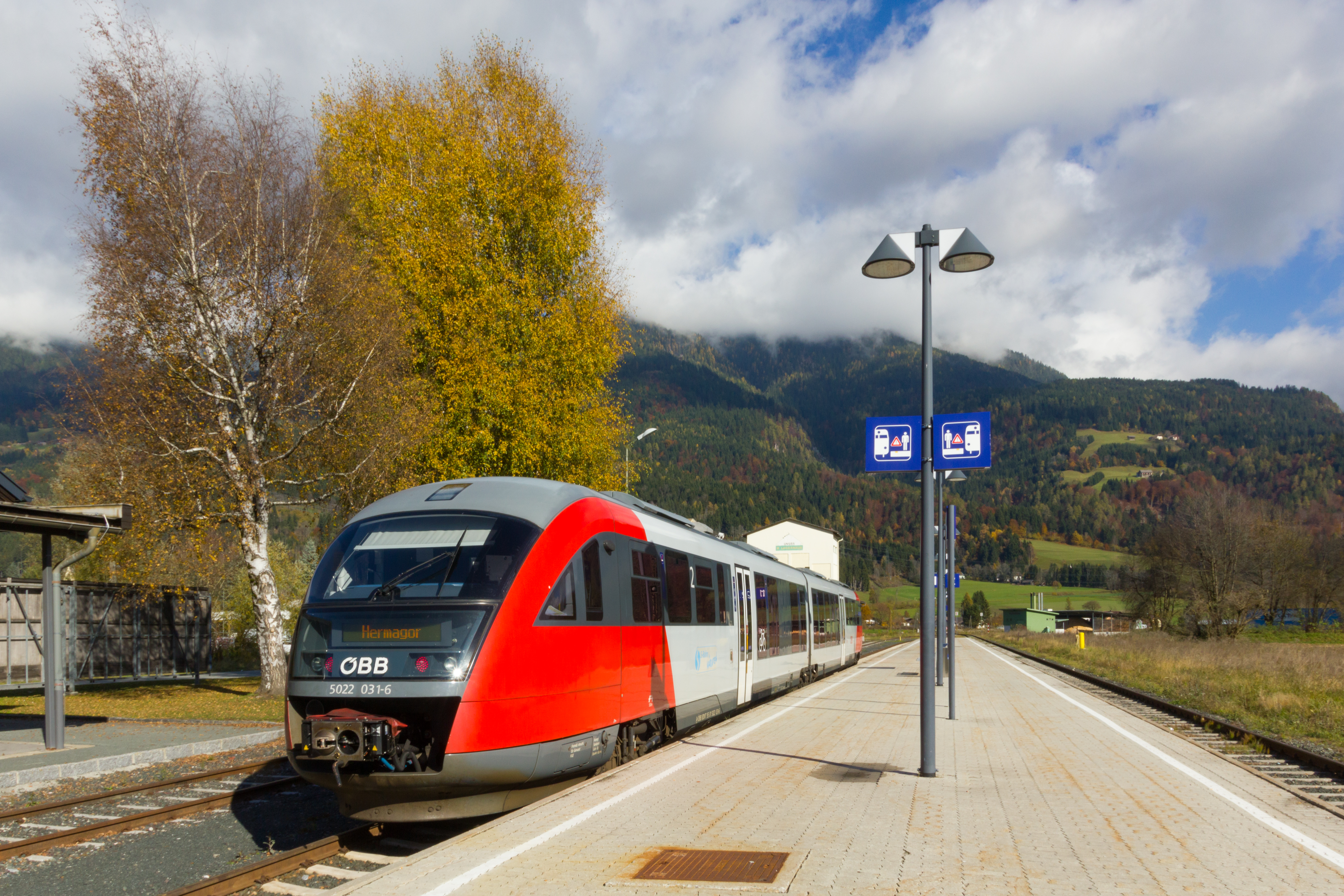 ÖBB 5022-036 is standing at the terminus Kötschach-Mauthen in the autumn of 2016.